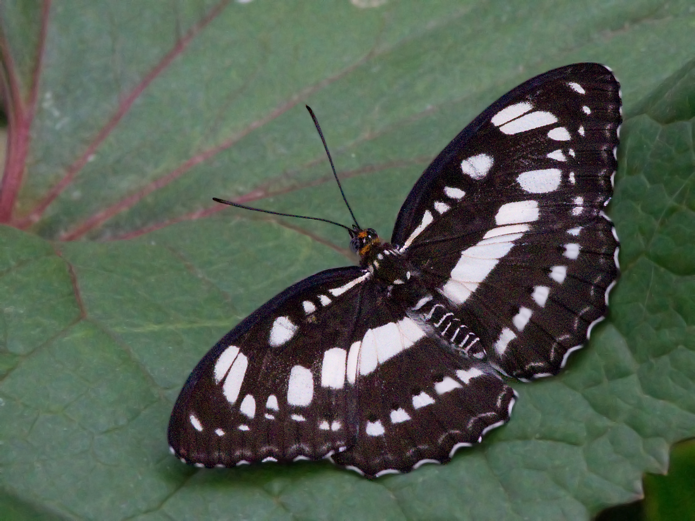 Dorsal view of Common sergeant. Taken at Krohn Conservatory.